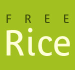 FreeRice logo, taken directly from Image is not subject to copyright as it strictly consists of text only, however it is subject to trademark laws.